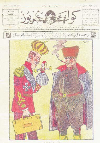 "Towards the Beykoz conference. Pasha: What's up Kosti the soupman, where are you going with your stuff? Kosti the soupman: to the new conference, to play my puppet." Political cartoon by Sedat Simavi (1896-1953) showing Constantine I of Greece and Mustafa Kemal, leader of the Turkish forces of Anatolia.